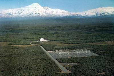 Aerial view of the High Frequency Active Auroral Research Program site original at [1]